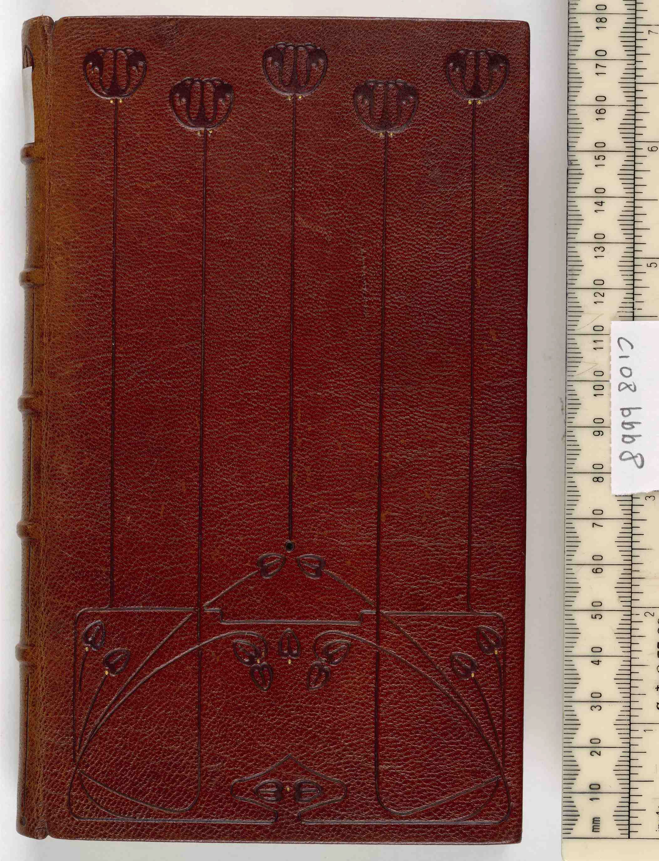 Style: Art nouveau; Caption: Upper cover; Colour: Brown; Edge: Unspecified